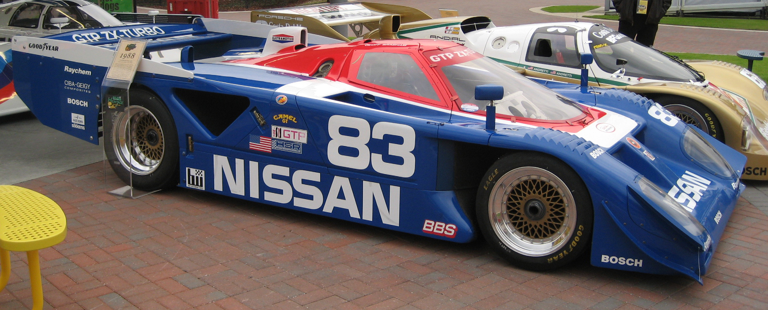 Nissan GTP ZX-Turbo chassis ZXT-8805.